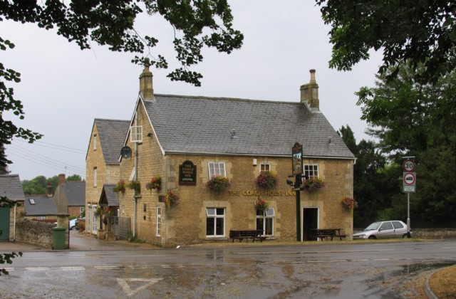 The Coach House Inn, South Luffenham, Rutland